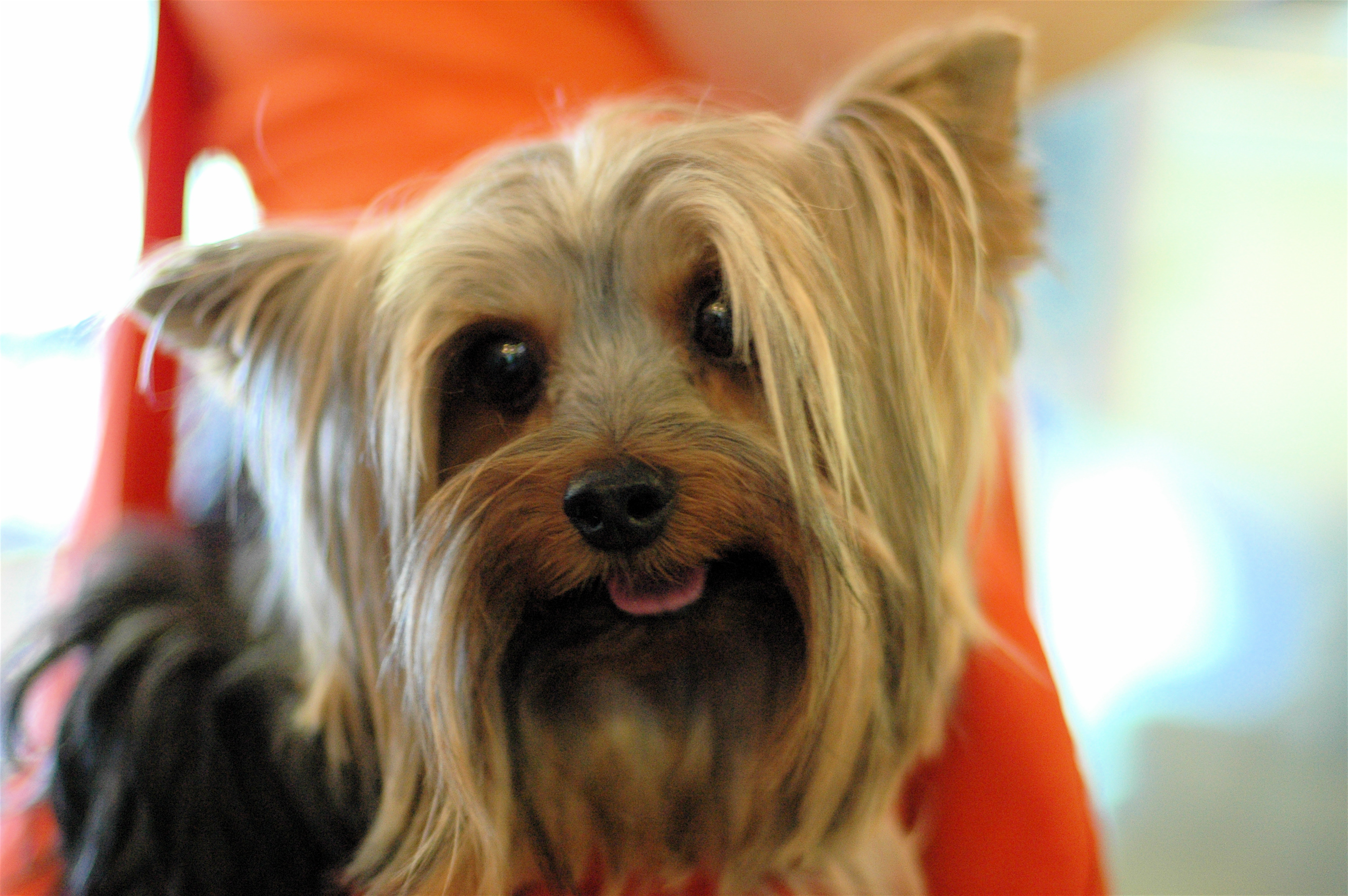 A Yorkshire Terrier in a purse.Cute Guy